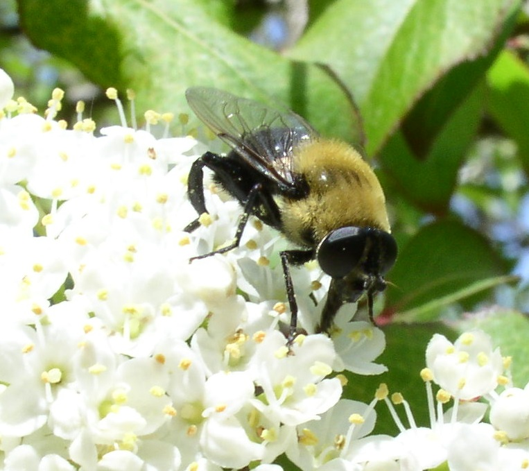 Syrphid fly, bumble bee mimic, Mallota bautias. Hilltown Township, Bucks County, Pennsylvania, USA.